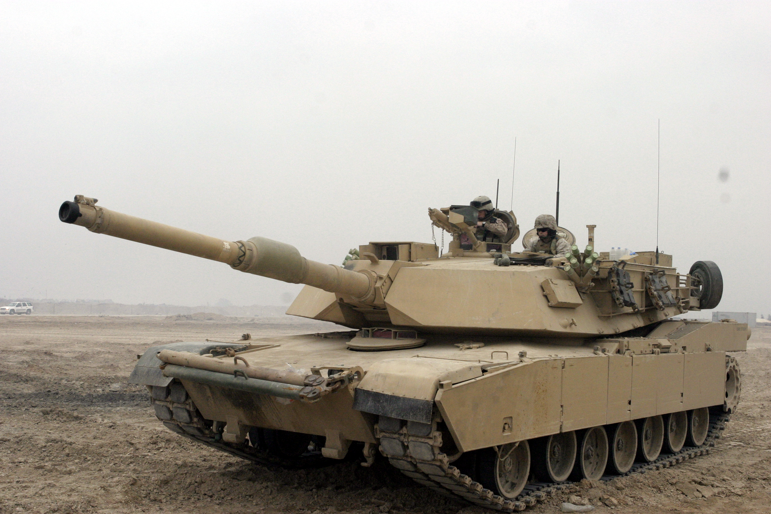 U.S. Marines perform premission checks on an M1A1 Abrams Tank in Camp Fallujah, Iraq, January 21, 2007.